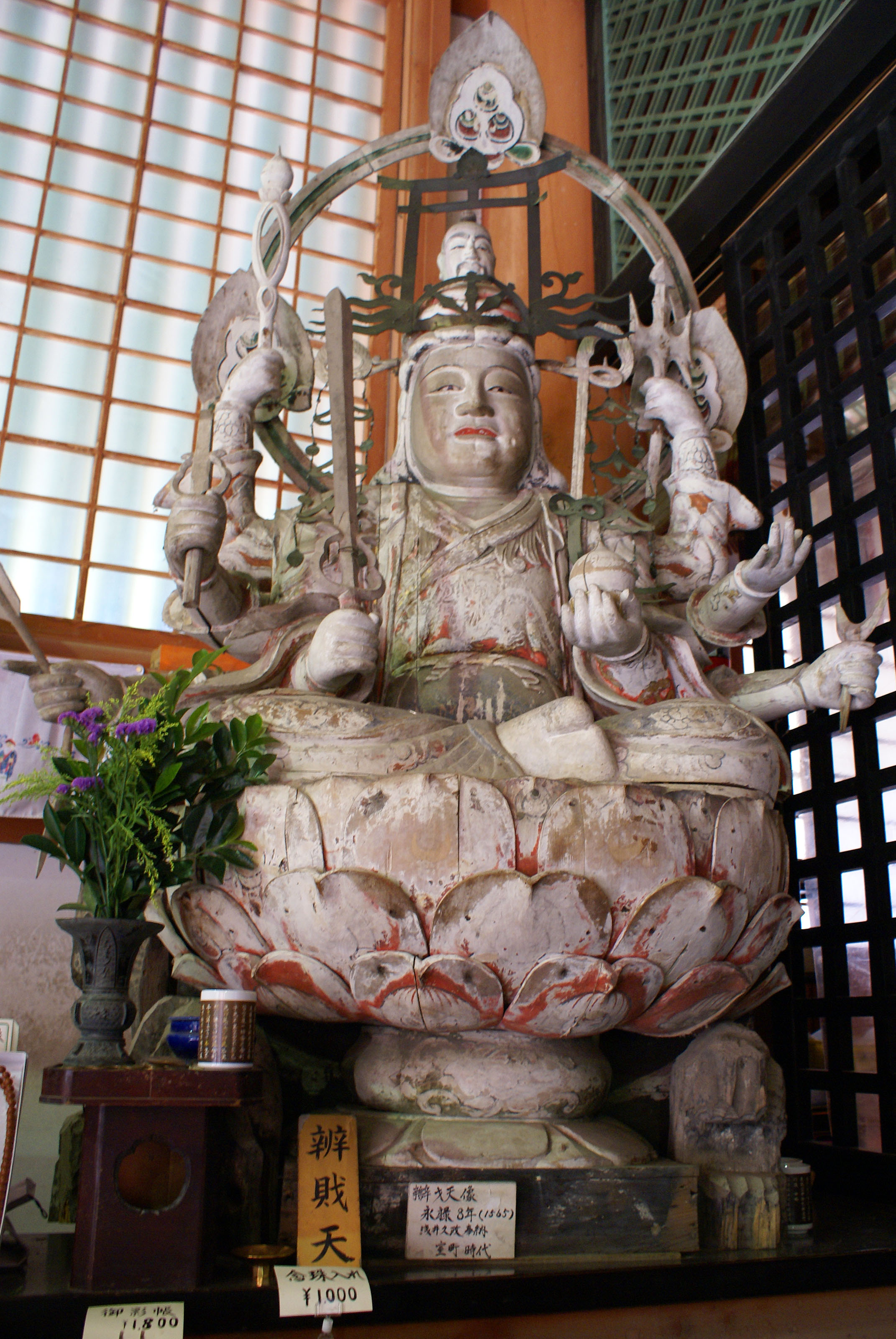 Hogonji in Nagahama, Shiga prefecture, Japan The yellow panel writes 辨戝天. However, the goddess's name, Benzaiten, is usually written as 辨財天 or 辯才天 (as on the smaller white panel). 辯 & 辨 are both simplified to 弁 in modern Japanese.